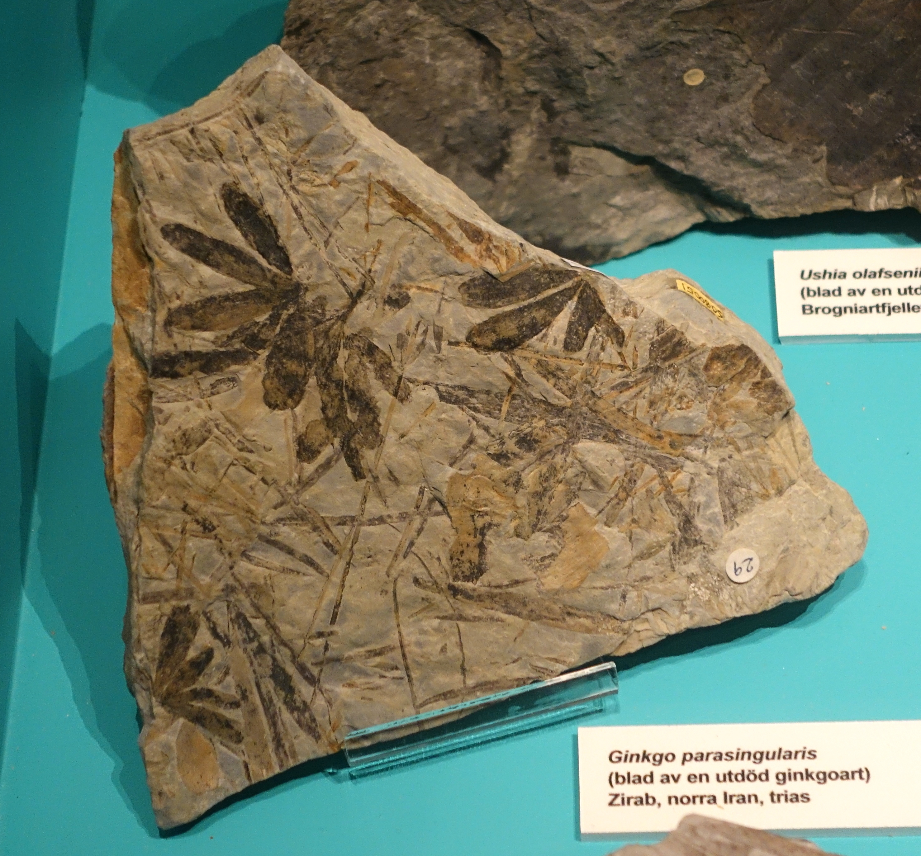 Exhibit in the Swedish Museum of Natural History - Stockholm, Sweden.